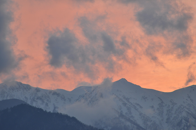 Mount Higashitensho (Higashitenshodake) seen from Ikeda Town, Nagano Prefecture, Japan